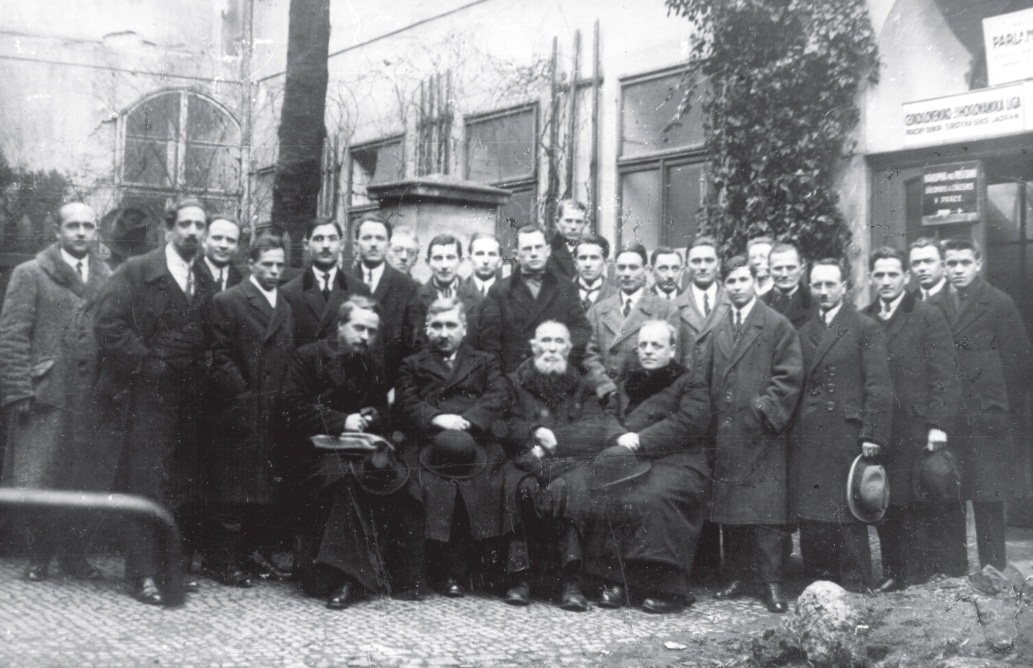 Belarusian activists in Vilnius during celebration of anniversary of Belarusian People's Republic declaration